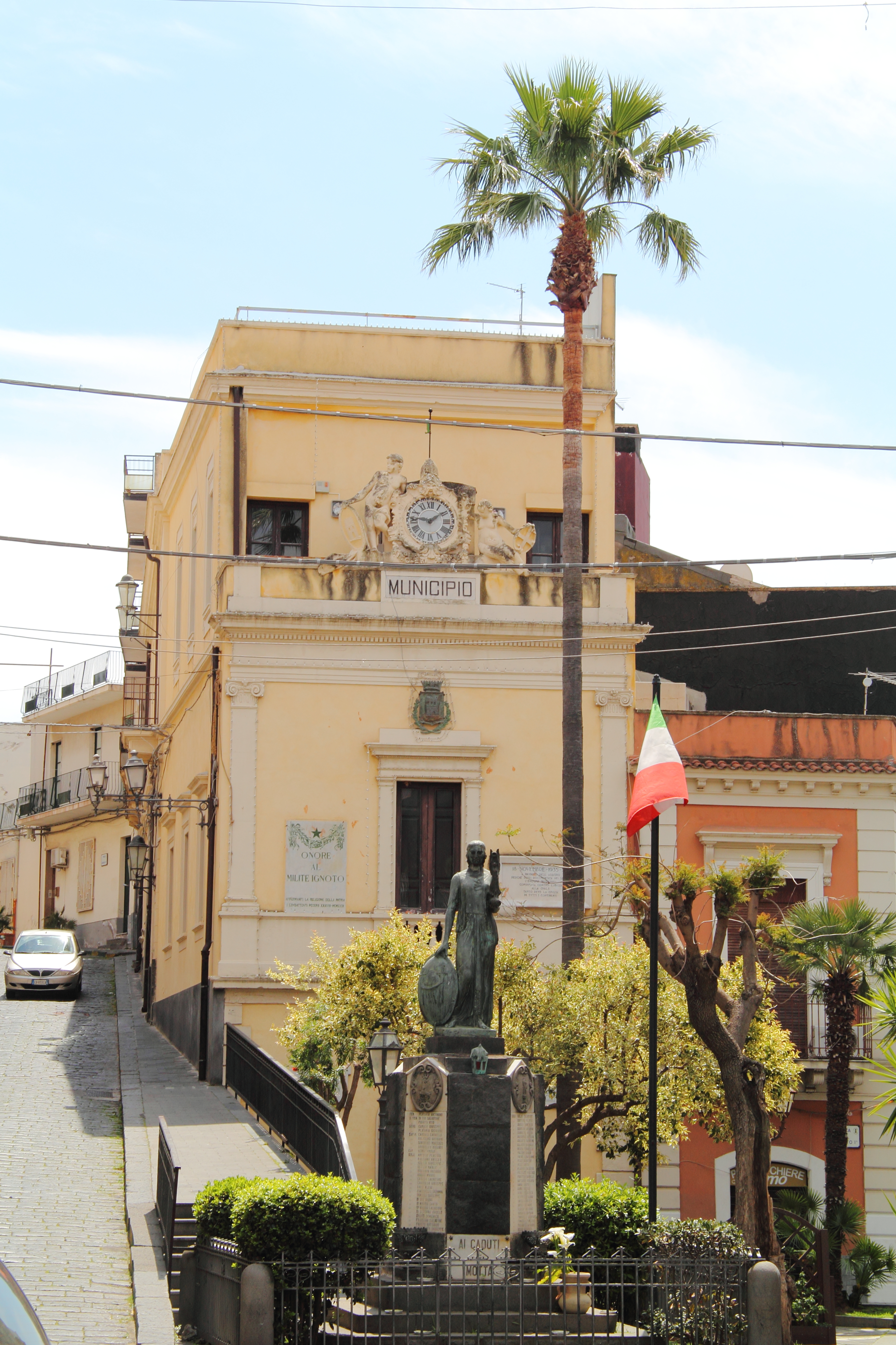 Sicily: Motta Sant'Anastasia, inner city